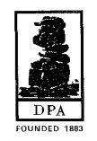 DPA logo from 1969